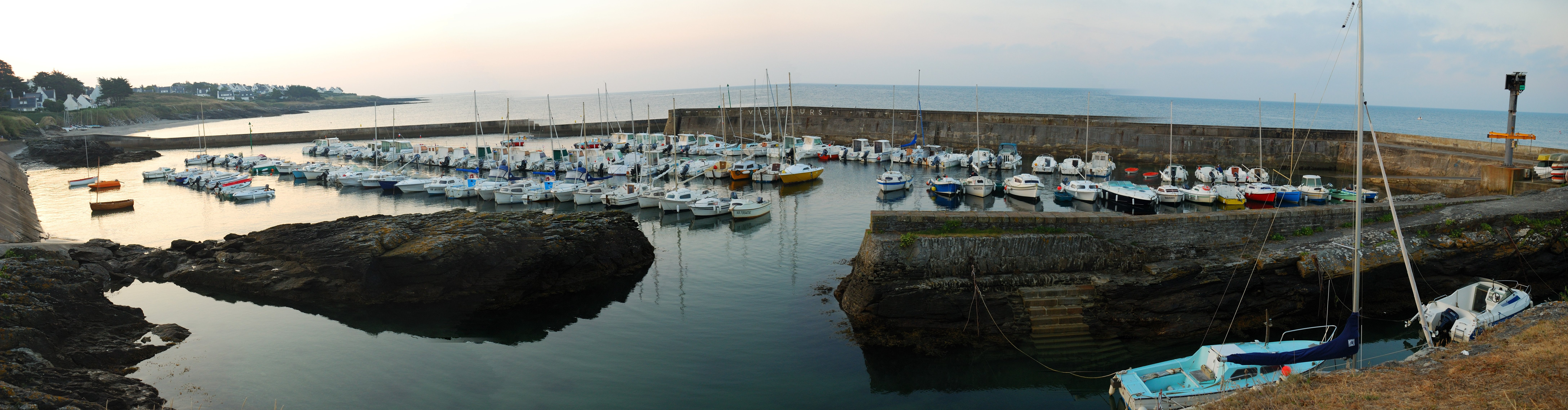 Saint-Gildas-de-Rhuys: Port-aux-Moines (Morbihan, France)